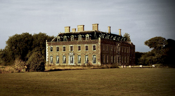 St Giles House in Wimborne St Giles, Dorset, England; home of the Earls of Shaftesbury; built in 1651